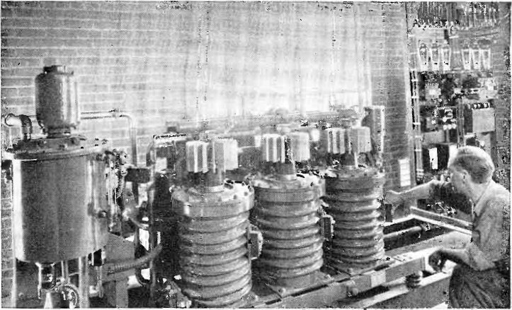 High power ignitron rectifiers, 1945. The ignitron was a mercury filled device used as switches and rectifiers in high power industrial processes. A trigger pulse on the firing electrode starts a mercury arc between the carbon anode and the mercury pool cathode.